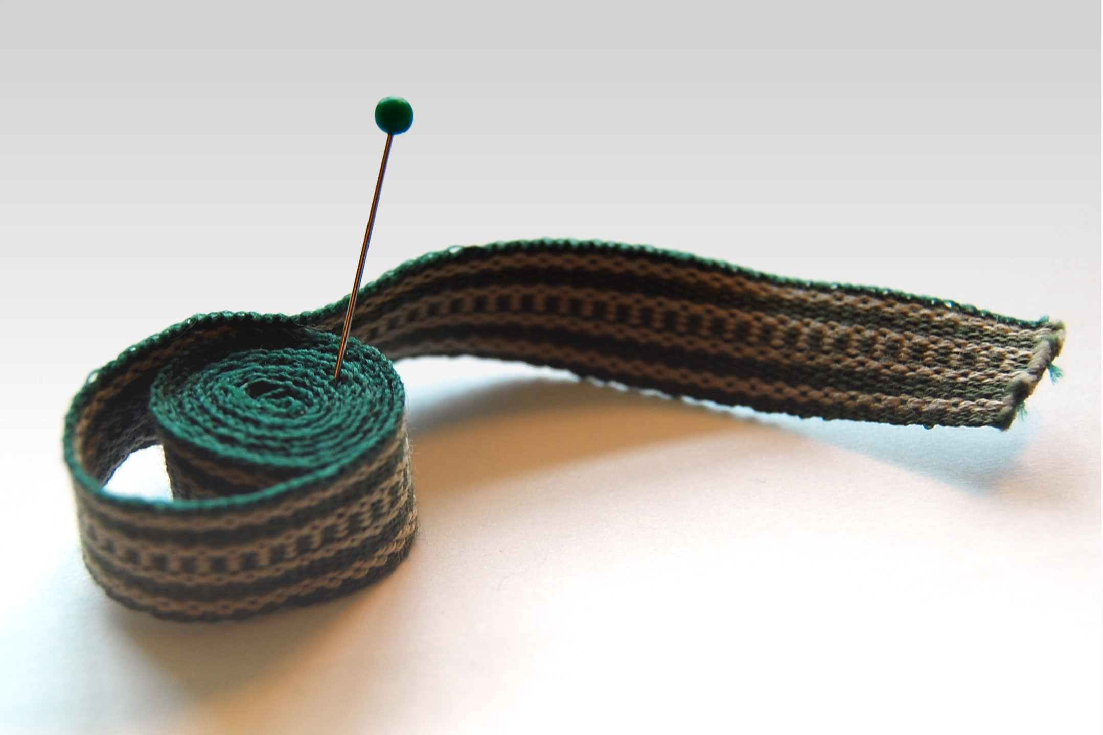 Image of a textile band.